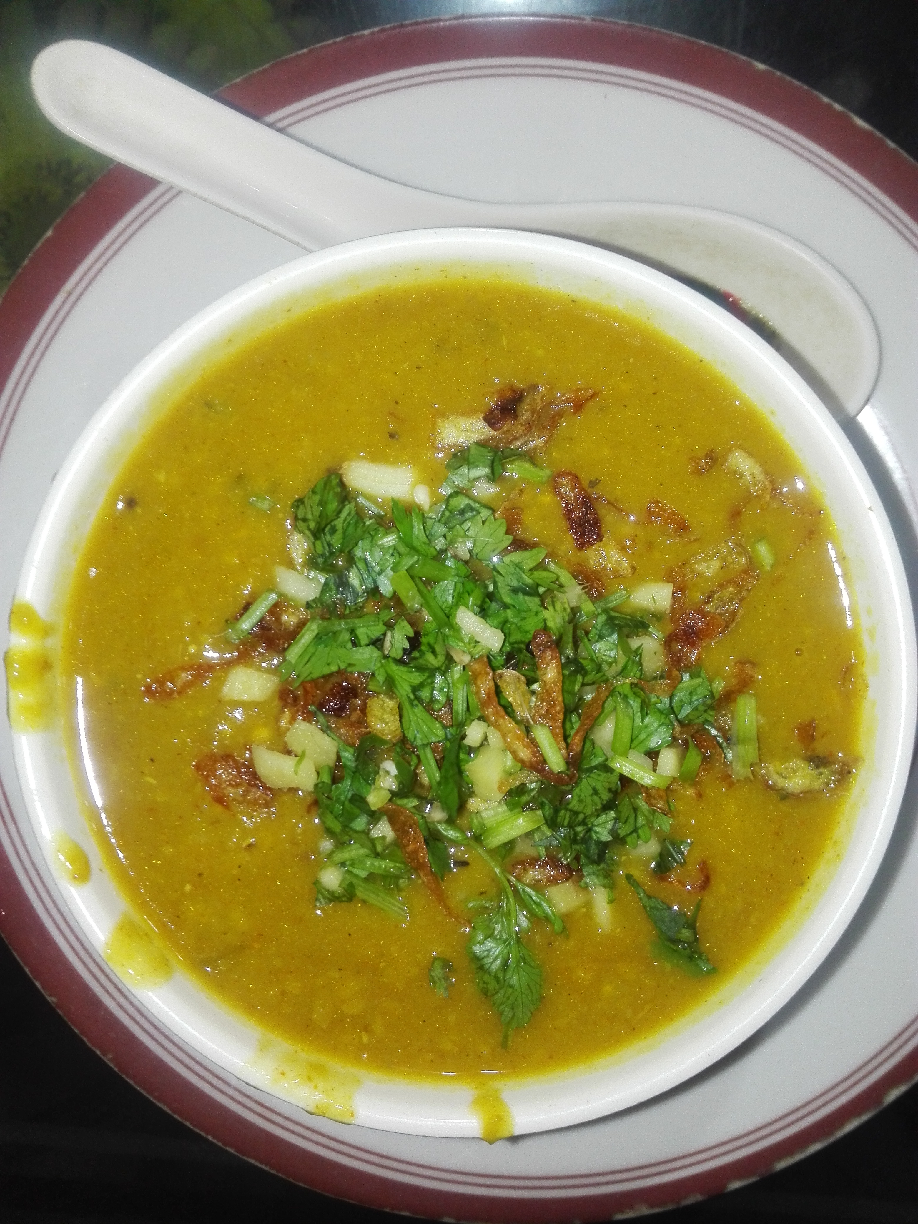 haleem is a Bangladeshi cuisine